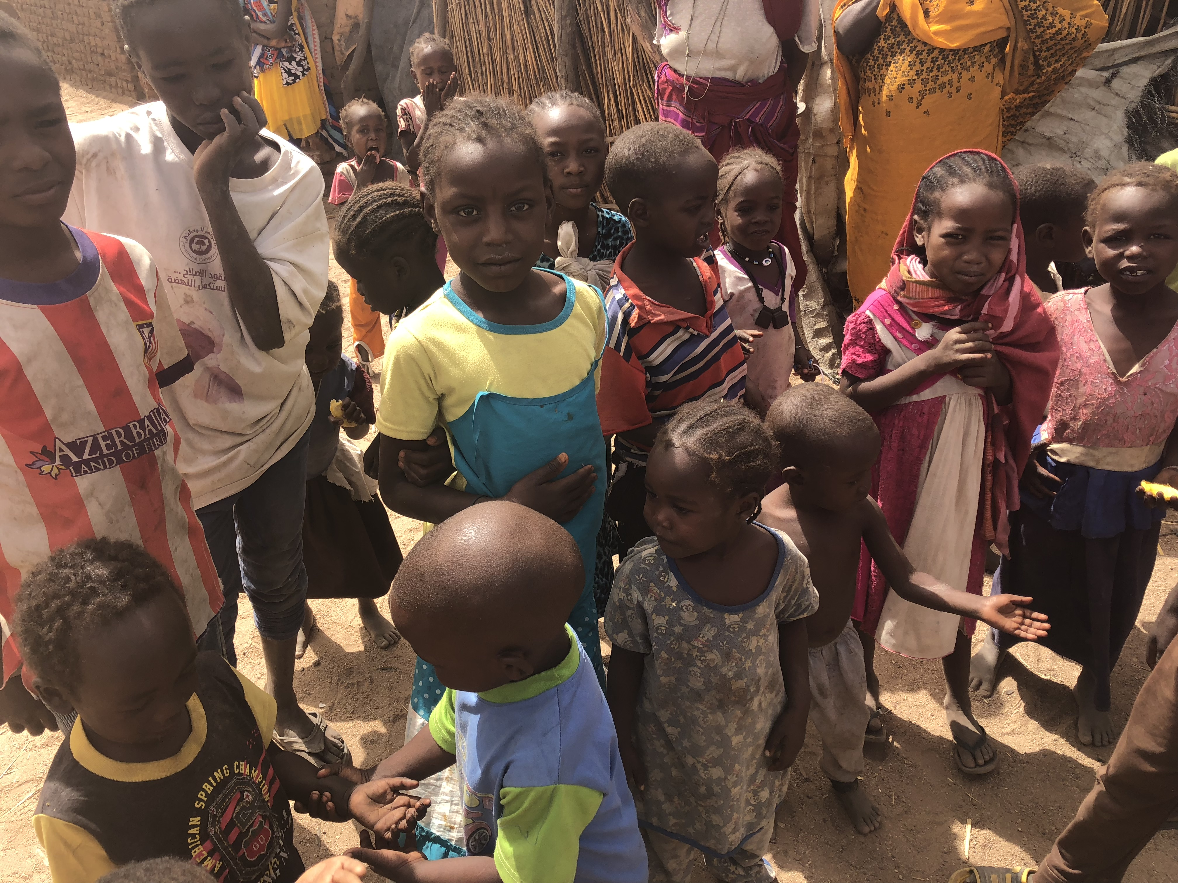 Children in IDP (Internally Displaced People) camp in Darfur, Sudan.